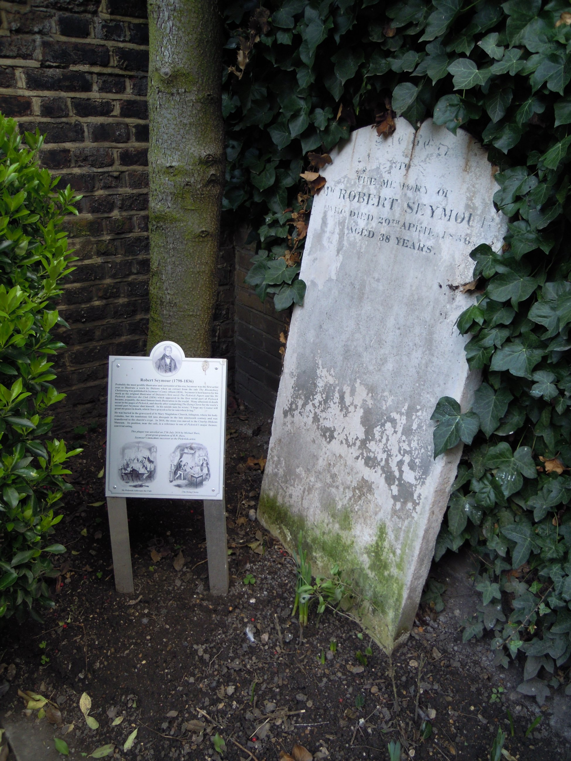 Photograph of the headstone of Robert Seymour at the Charles Dickens Museum